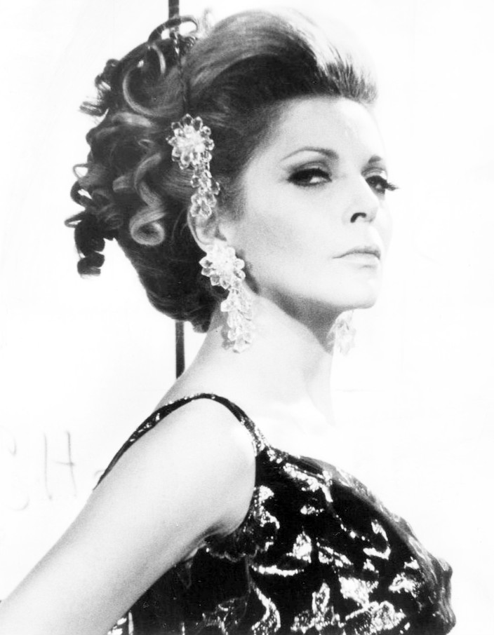 Photo of Barbara Bain from the television program Mission:Impossible. In this episode, Bain goes undercover as a fashion model to end a spy ring.